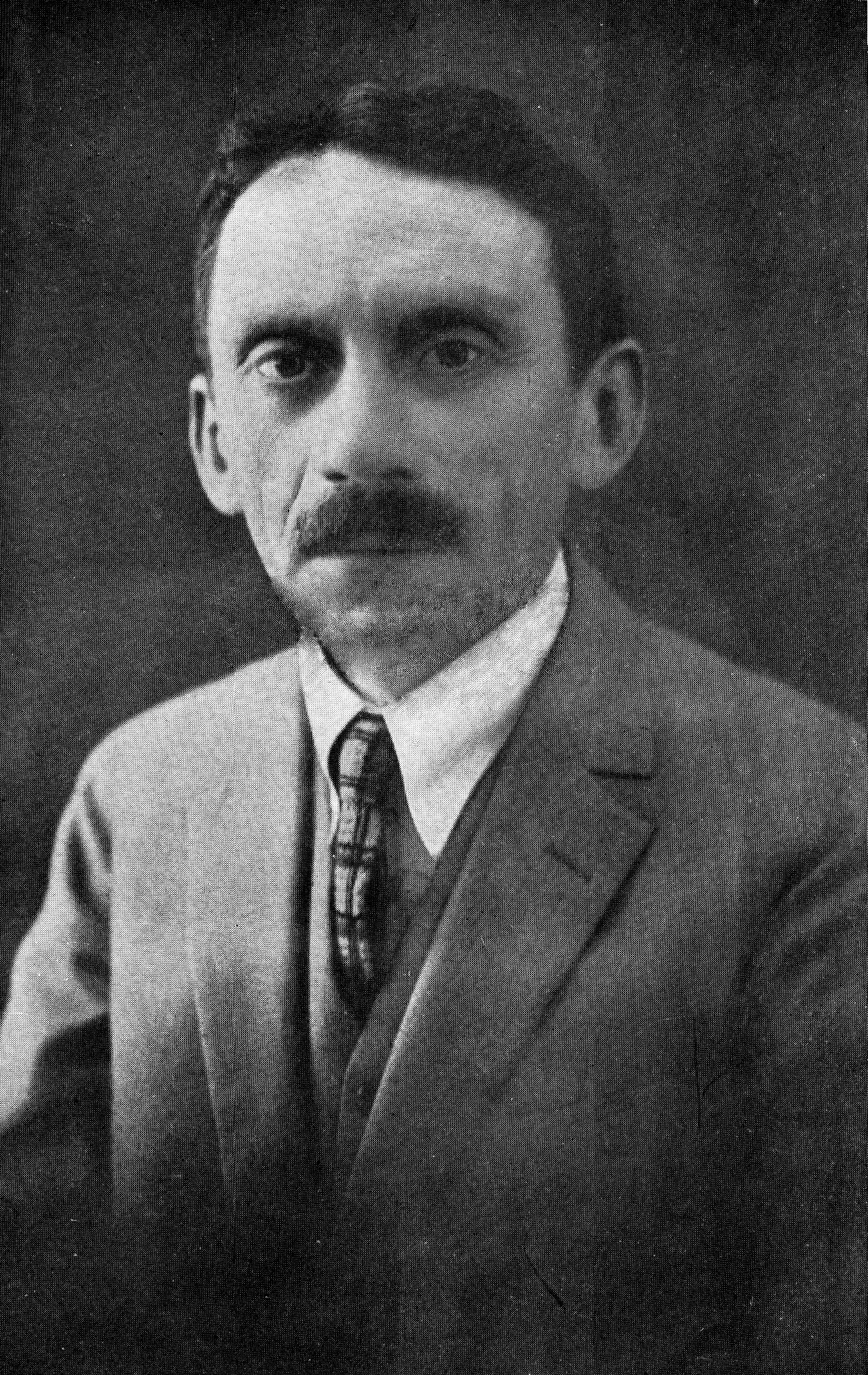 Hersh-Dovid Nomberg, yiddish writer and journalist (1867-1927)